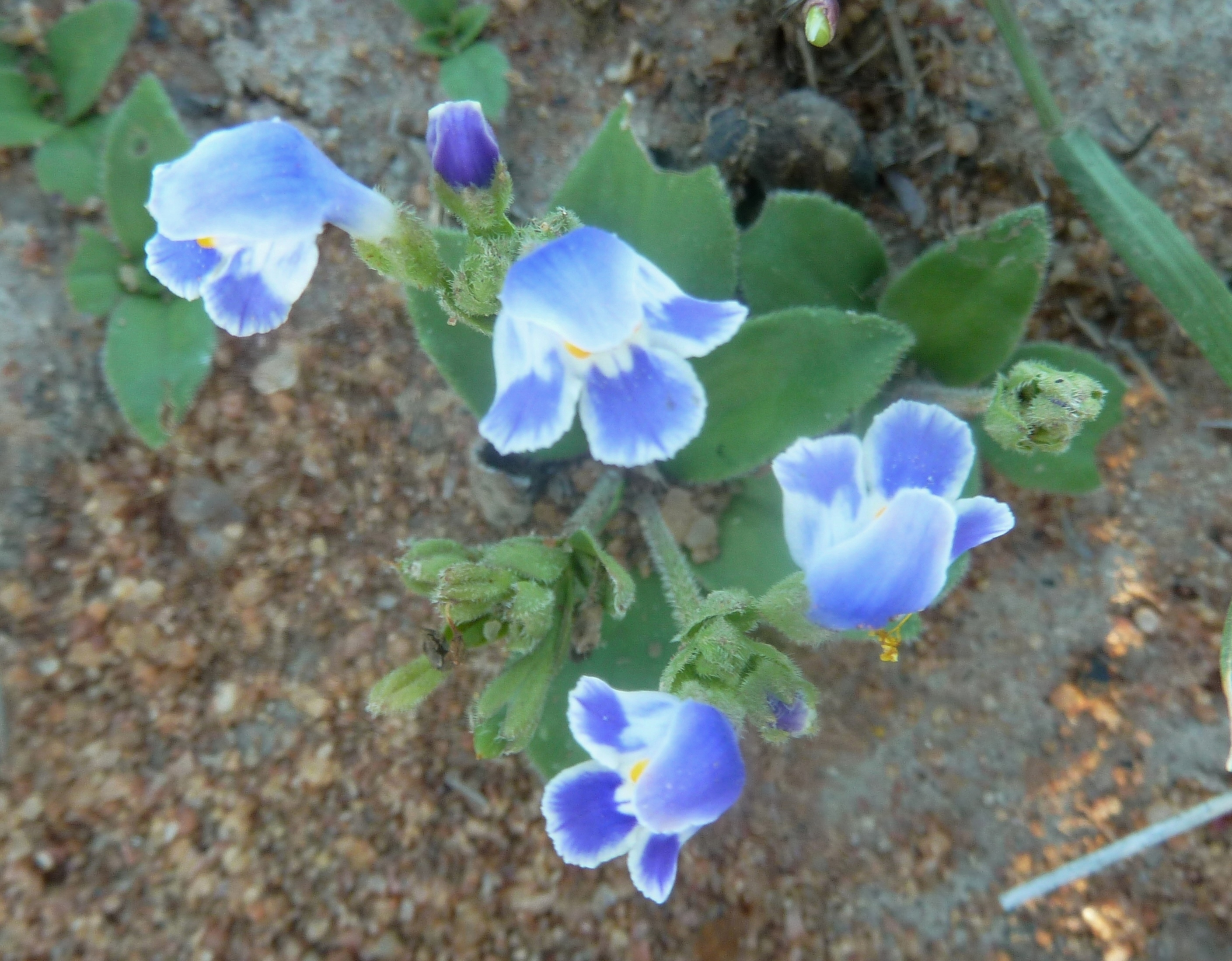 Habit of Blue carpet in the southern section of Borakalalo Game Reserve, North West, South Africa